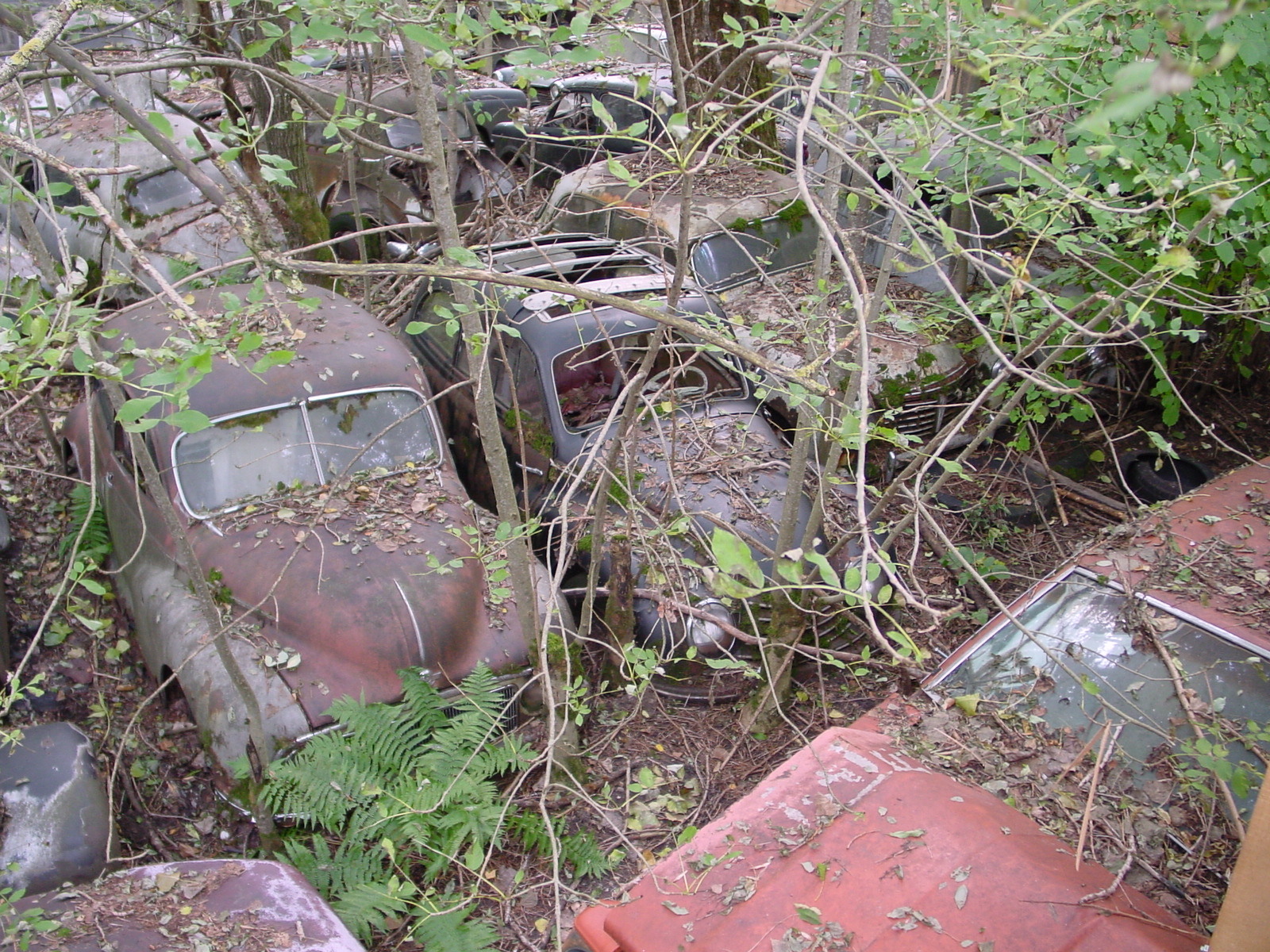 Object at the carjunk in Kaufdorf (Guerbetal) (Switzerland) Cars hidden in the forest.